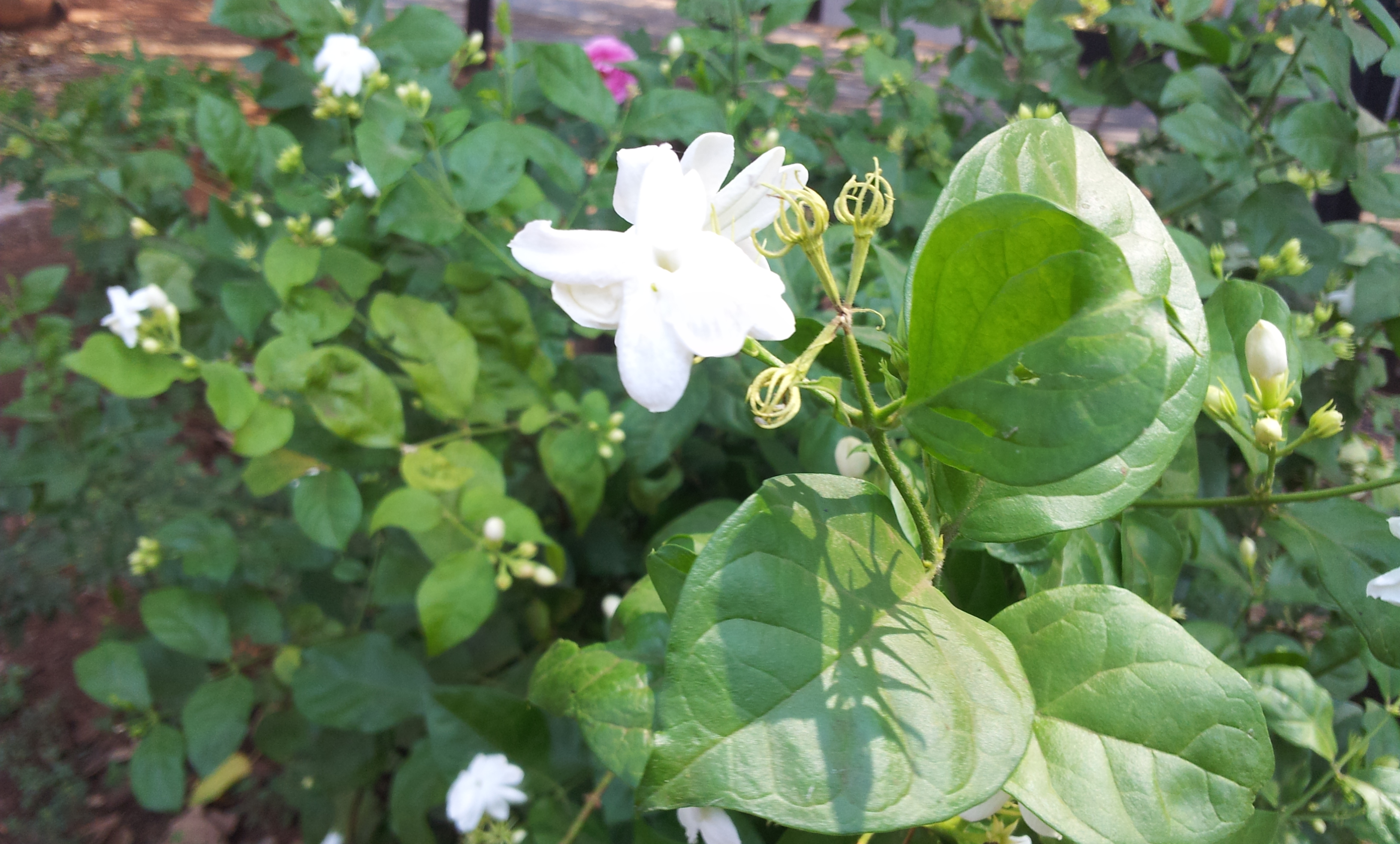 Jasmine Flower full bloom on the plant near Hyderabad, Andhra Pradesh, India.